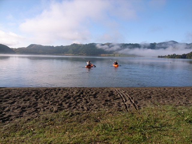 Lake Okareka, Rotorua Feb 2012